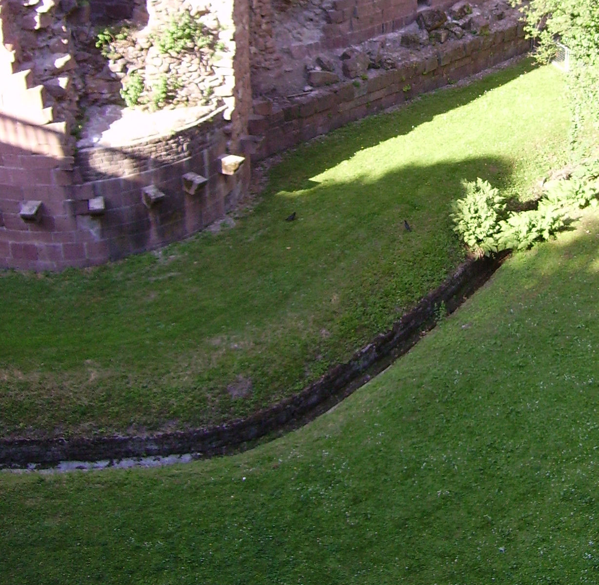 part of Heidelberg castle (Heidelberger Schloss)